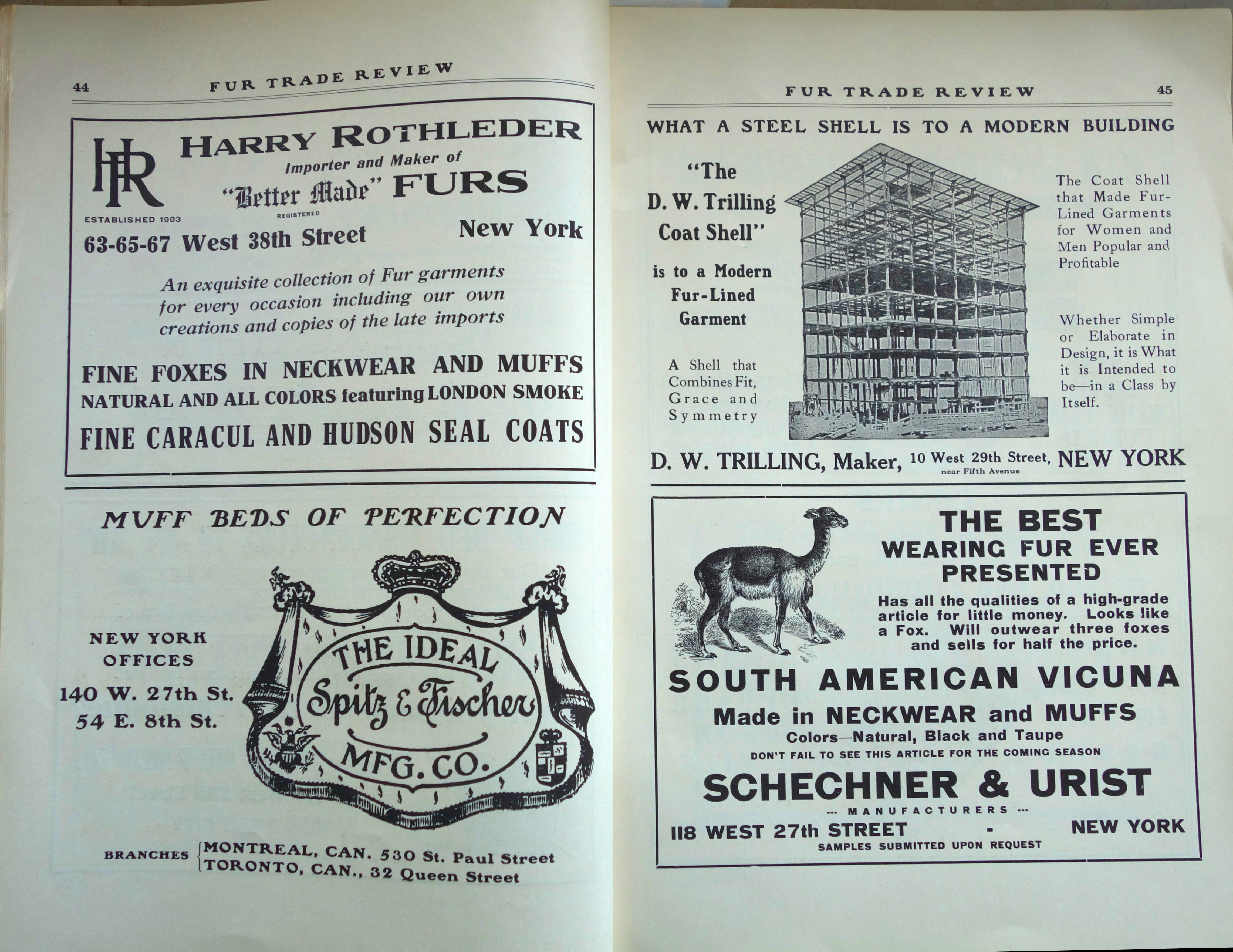 Fur Trade Review November 1914. Harry Rothleder, New York, furrier Spitz & Fisher, Montreal, Toronto, New York, muff beds D. W. Trilling, New York, fur shells Schechner & Urist, New York, furrier